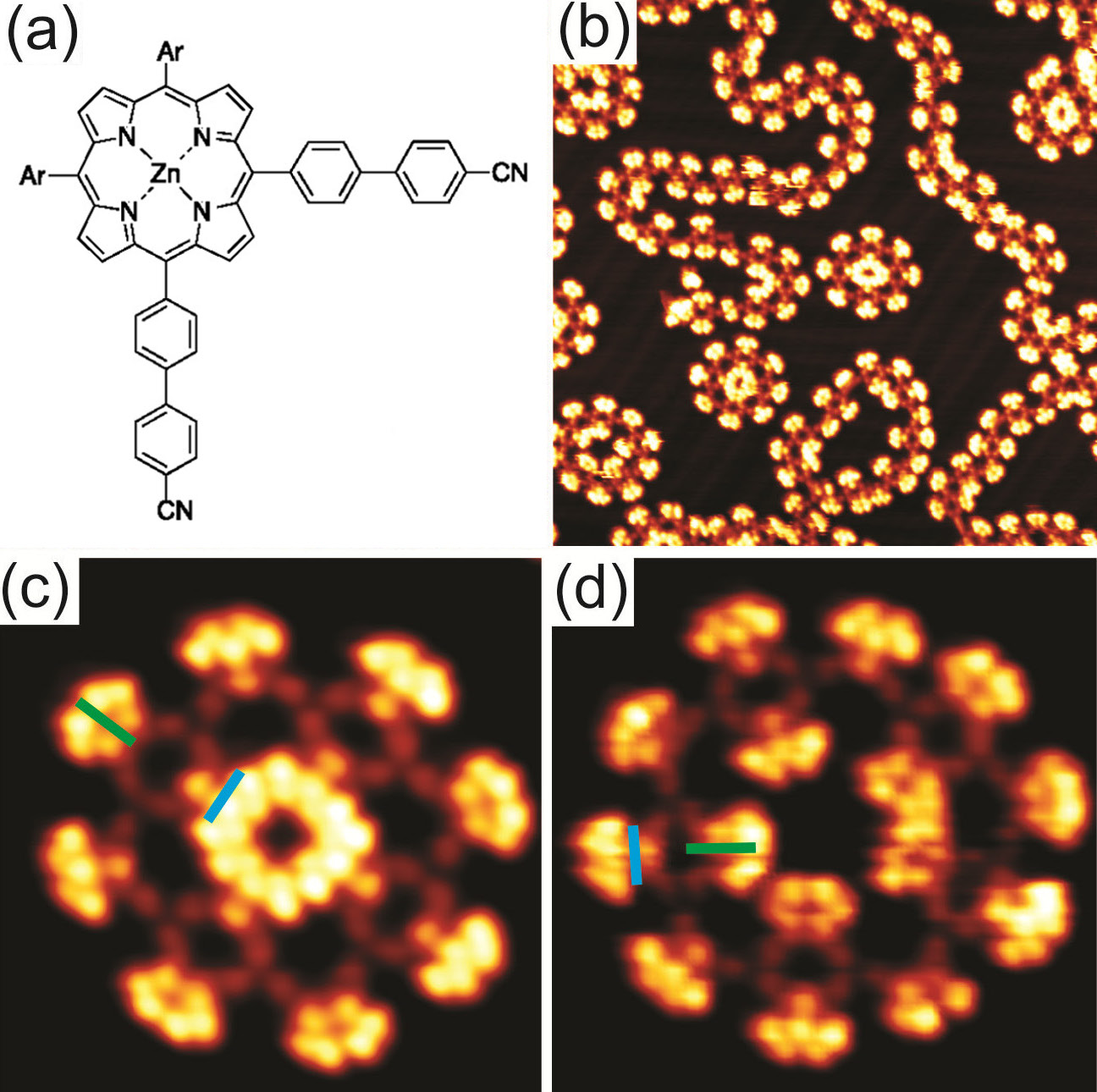 (a) Overview STM image (350 × 350 nm2) and close-up STM image (50 × 50 nm2) for submonolayer coverage of porphyrin 1 on Au(111) after adding Co atoms. Rosette structures and 1D polymer chains co-exist. (c) and (d) Zoom-in STM images (10 × 10 nm2) showing rosette structures of two different sizes. The rosette in (c) consists of 12 molecules: 4 molecules in the inner core and 8 molecules in the outer ring, while that in (d) is made up of 15 molecules: 5 molecules in the inner core and 10 molecules in the outer ring. The blue and green bars in (c) and (d) indicate the two different conformational isomers A and B, respectively (cf. Figure S5). The STM images were taken at 77 K with U = –1.8 V, I = 20 pA. The set of three arrows in (a) indicates the principal directions of the underlying substrate.